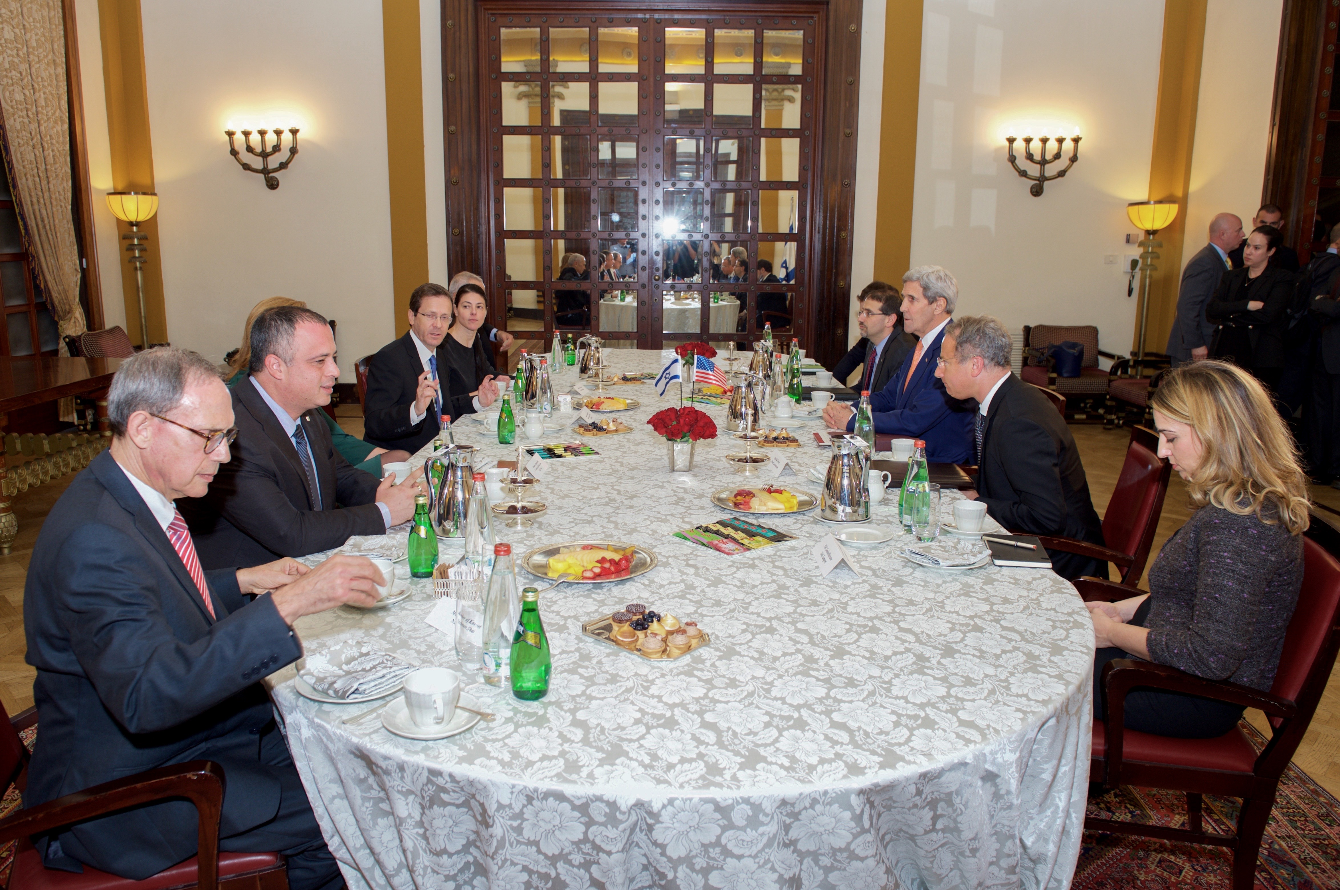 U.S. Secretary of State John Kerry and his advisers sit across from Israeli Opposition Leader Isaac “Buji” Herzog and their counterparts on November 24, 2015, in the Reading Room at the King David Hotel in Jerusalem. [State Department photo/ Public Domain]